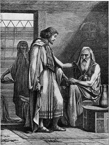 Isaac Blesses Jacob; Illustration from the 1897 Bible Pictures and What They Teach Us: Containing 400 Illustrations from the Old and New Testaments: With brief descriptions by Charles Foster